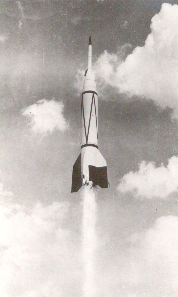 On February 24, 1949 a high altitude test vehicle called BumperWAC launched from White Sands Proving Ground. It reached arecord altitude of two hundred and fifty miles- the "firstrecorded man-made object to reach extraterrestrial space." Thisrecord held until 1957. Its first stage was a V-2 (German A-4)rocket, the warhead replaced by a launching compartment. Afterthe V-2 shut down, there was a high altitude "bump," whichprovided the name for the rocket. The photo shows the secondstage, a modified WAC Corporal sounding rocket, mounted in thenose cone. The Jet Propulsion Laboratory was responsible fordesign study, development, and testing of the Bumper WAC incooperation with General Electric and Douglas Aircraft, for theArmy Ordnance Department. Bumper WAC was the world's first largetwo-stage liquid propellant rocket.